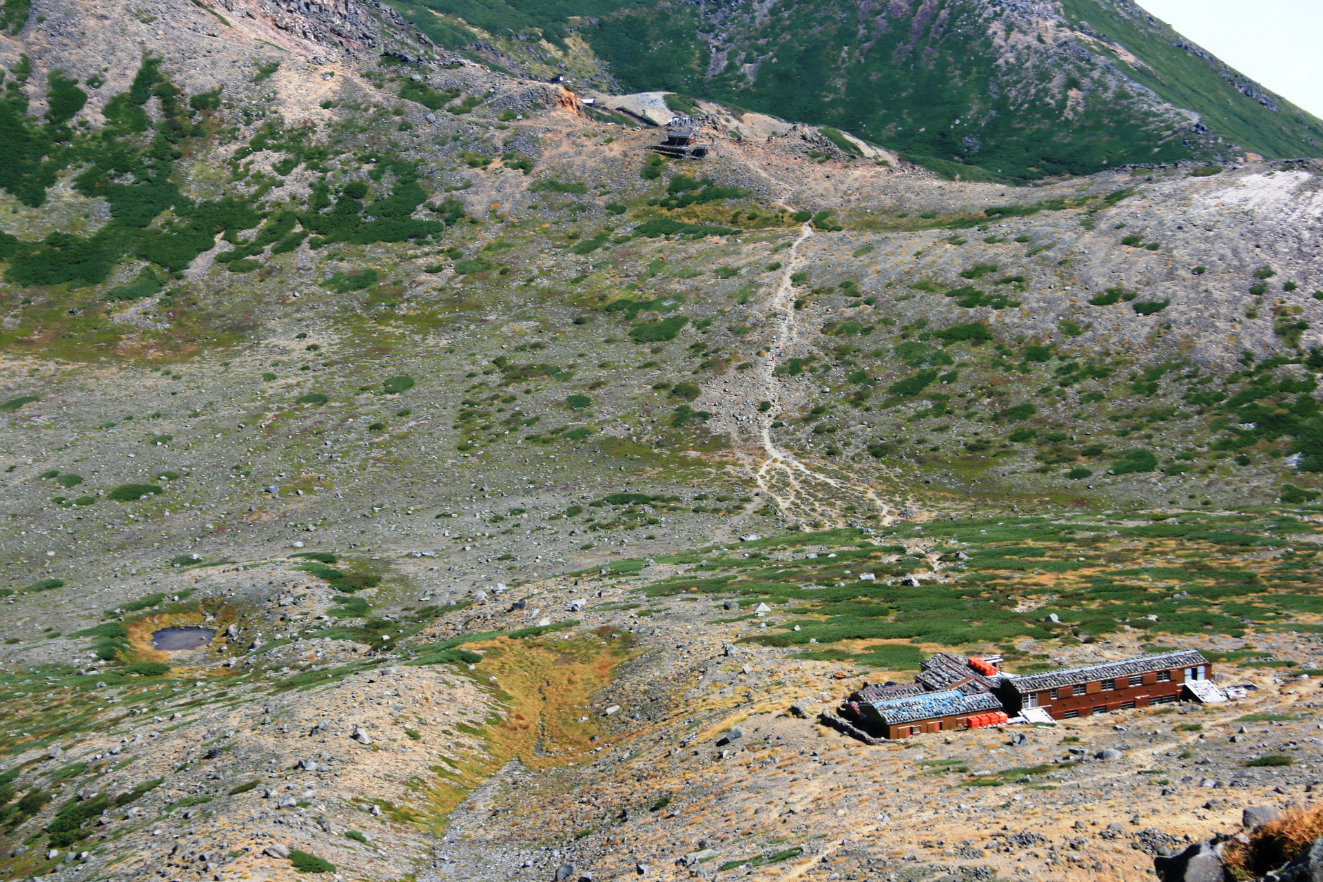 Pond and Sainokawara of Mount Ontake